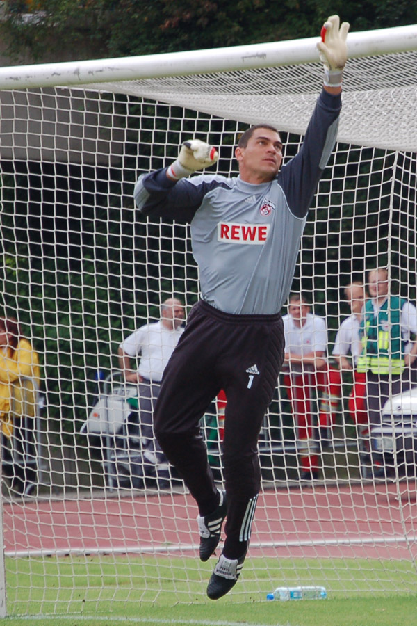 Faryd Mondragon during a pre-season match